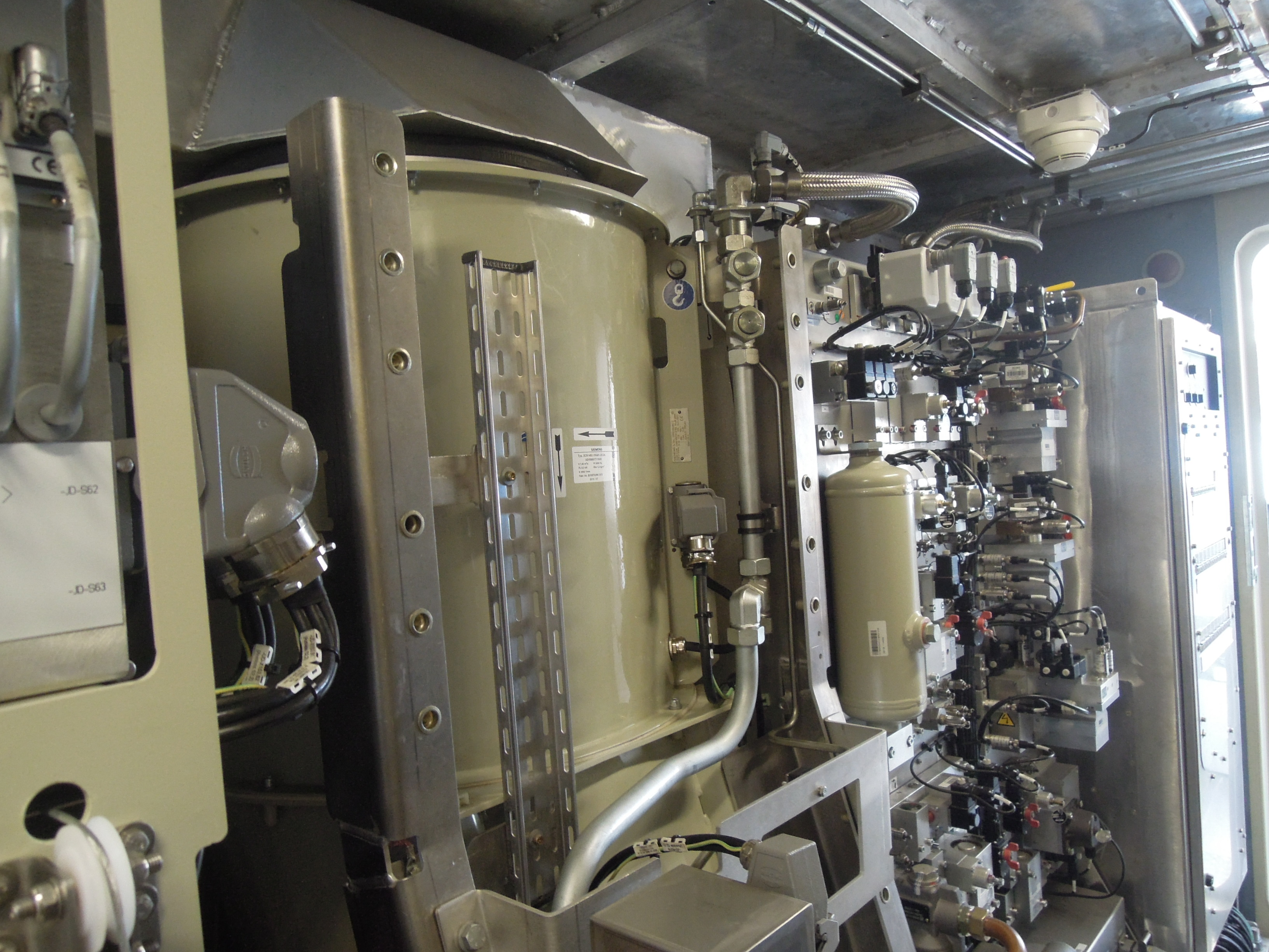 Electric locomotive Siemens Vectron at the Czech Raildays 2013 trade fair in Ostrava, Czech Republic